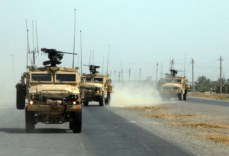 Personnel from Combined Joint Special Operations Task Force- Arabian Peninsula cross a highway median in order to avoid unnecessary stoppage during a convoy of new RG-33 vehicles to Baghdad. Picture shows CROWS remote weapons stations attached.